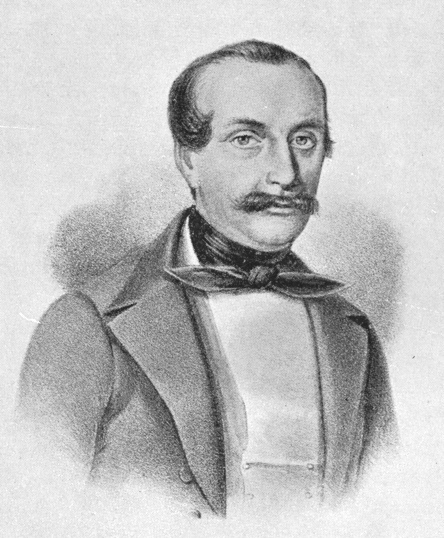 Swedish author and publicist Magnus Jakob Crusenstolpe.